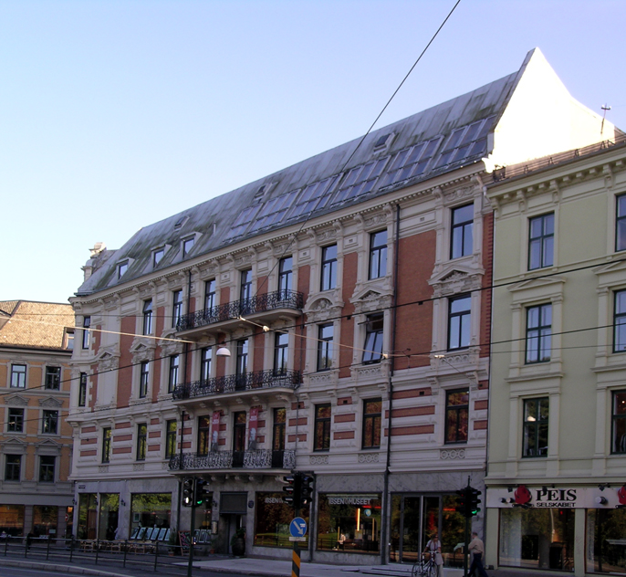 Arbins gate 1/Henrik Ibsens gate 26, Oslo. Built 1895. Architect: Herman Backer. Henrik Ibsen lived here from 1895 until his death in 1906. Today: Ibsenmuseet.